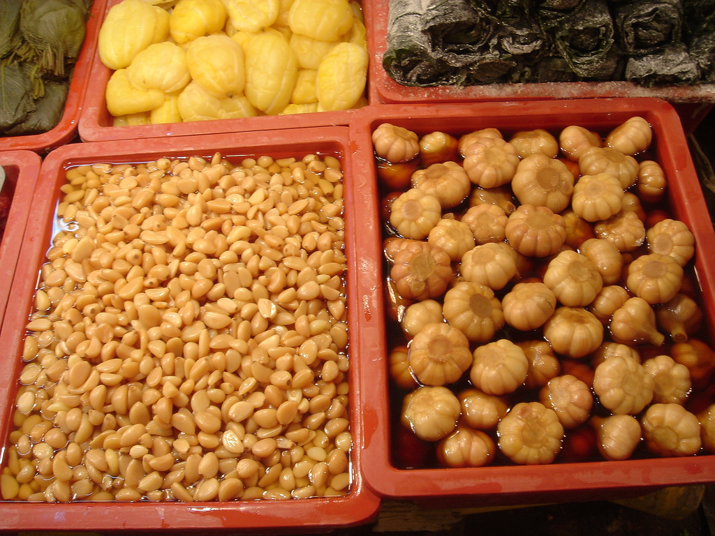 Maneul jangajji (pickled garlics in soy sauce) being sold at Gyeongdong Market in Seoul, South Korea